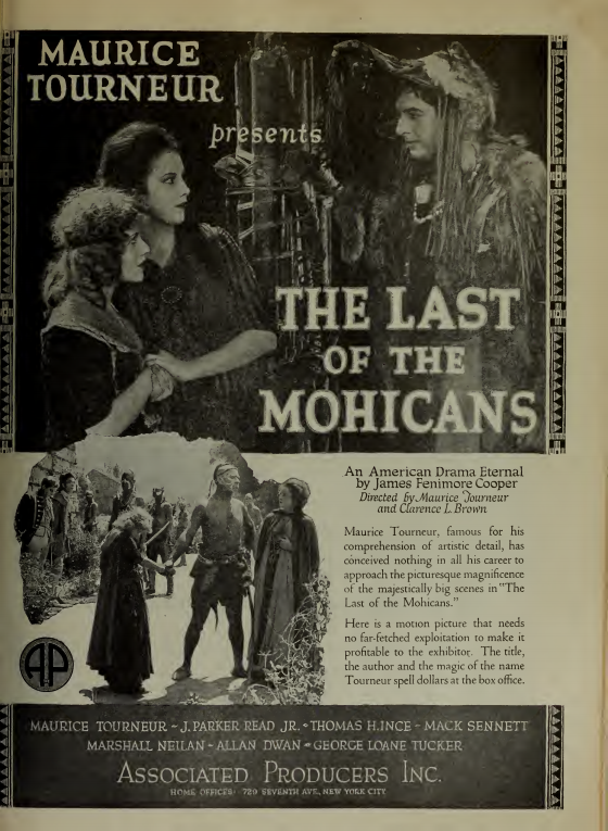 Ad for The Last of the Mohicans (1920), directed by Maurice Tourneur, with Lillian Hall, Barbara Bedford, and Harry Lorraine.